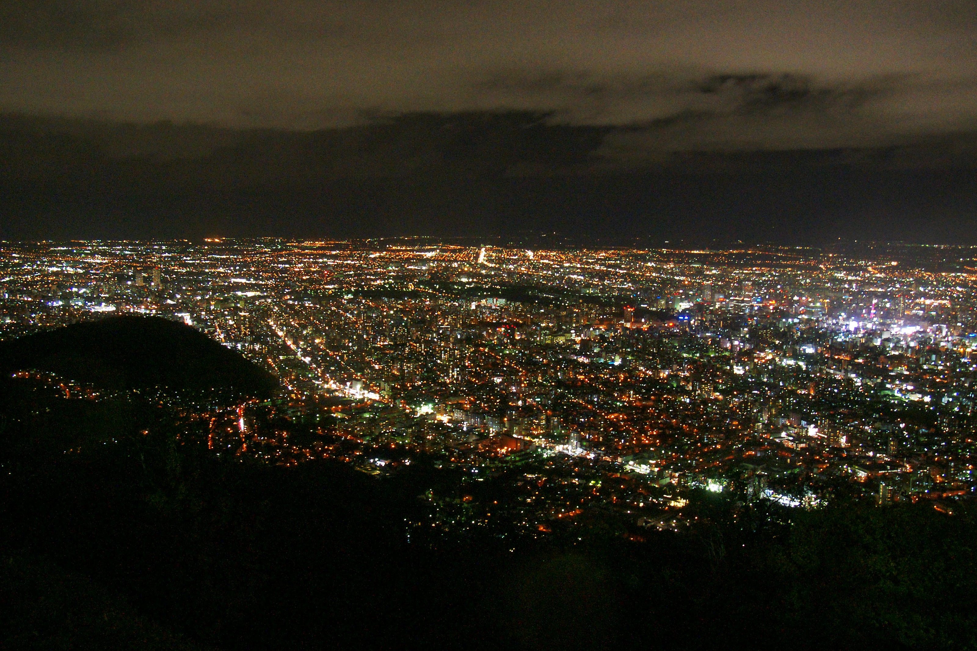 View from Mt. Moiwa in Sapporo, Hokkaido prefecture, Japan